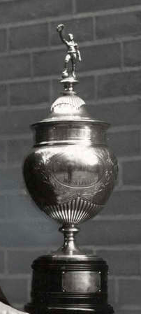 The Coupe Vanden Abeele, the trophy awarded after association football duels between Belgian and Dutch selections in Antwerp between 1901 and 1925